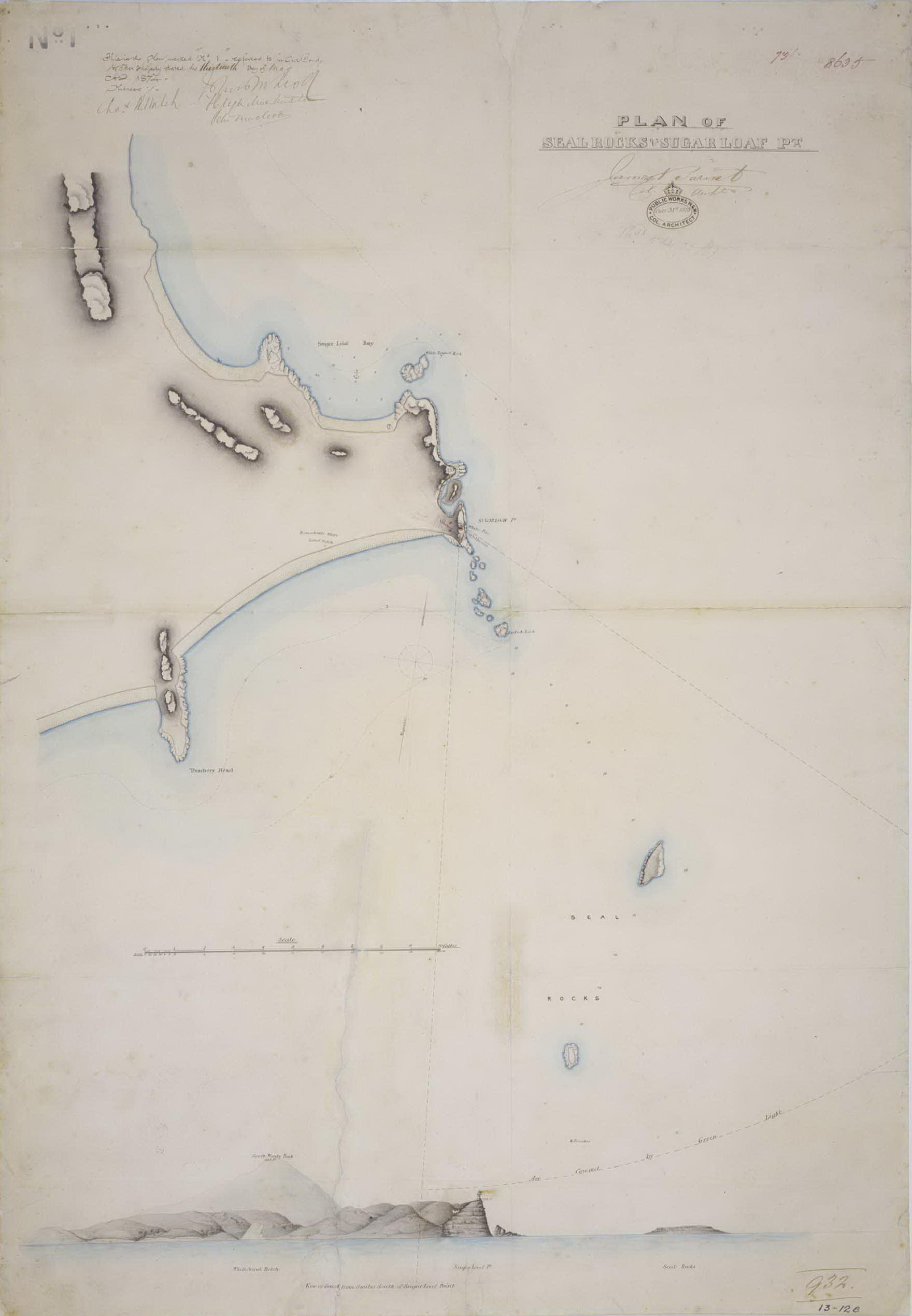 Plan of Seal Rocks & Sugarloaf Point, showing view of lighthouse and surrounds from 8 miles off the coast, by James Barnet - NSW Colonial Architect, 1873